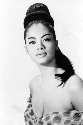 Zaima Beleño - vedette y actriz